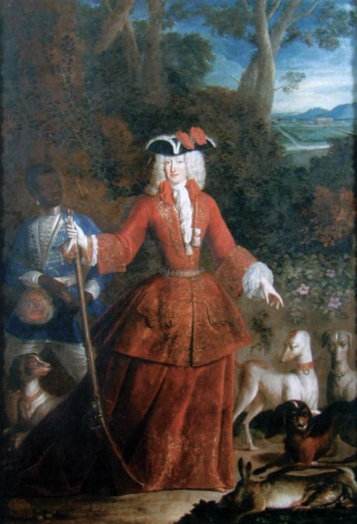 Portrait of Maria Anna of Neuburg, queen consort of Spain.